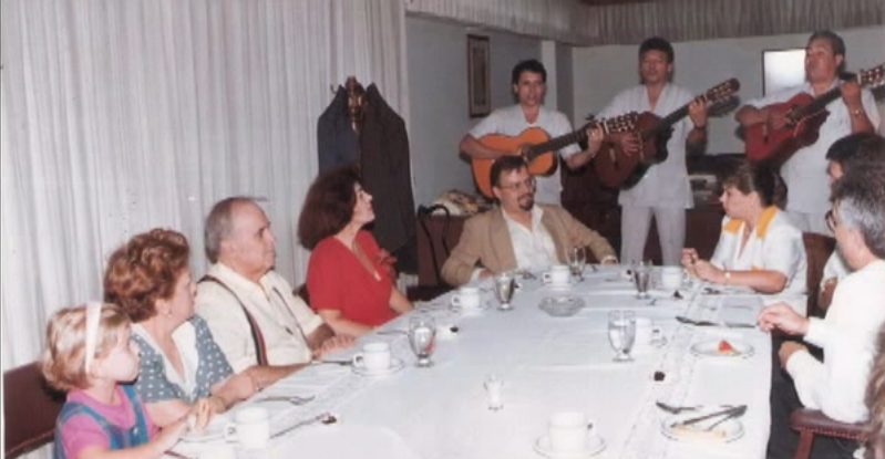 Recepción de Carlos Ardila Lülle en Hipinto, 1993